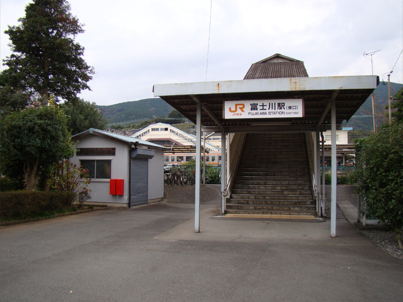 Fujikawa station east side Shizuoka Japan